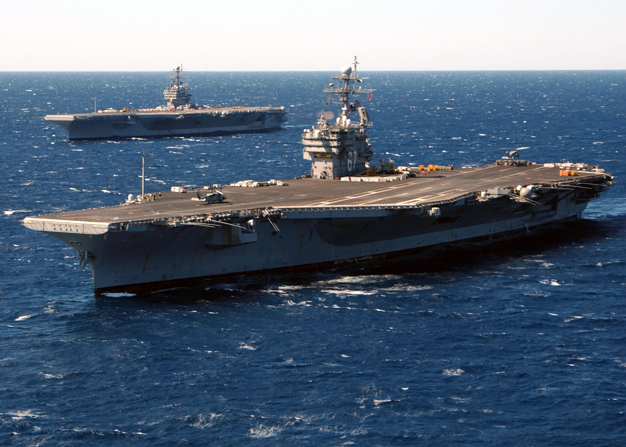 050312-N-9362D-004 Atlantic Coast - USS John F. Kennedy (CV 67), bottom, conducts vertical replenishment (VERTREP) operations with USS Theodore Roosevelt (CVN 71). VERTREP's are used to quickly transfer munitions and supplies from one ship to another.